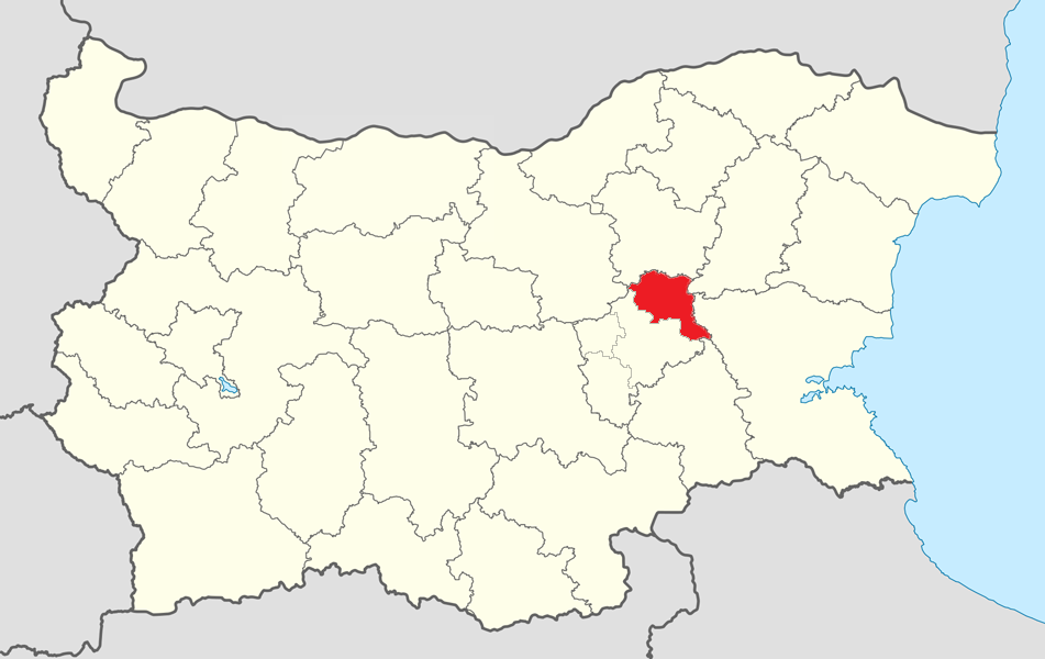 Location map of Kotel Municipality within Bulgaria and Sliven Province.